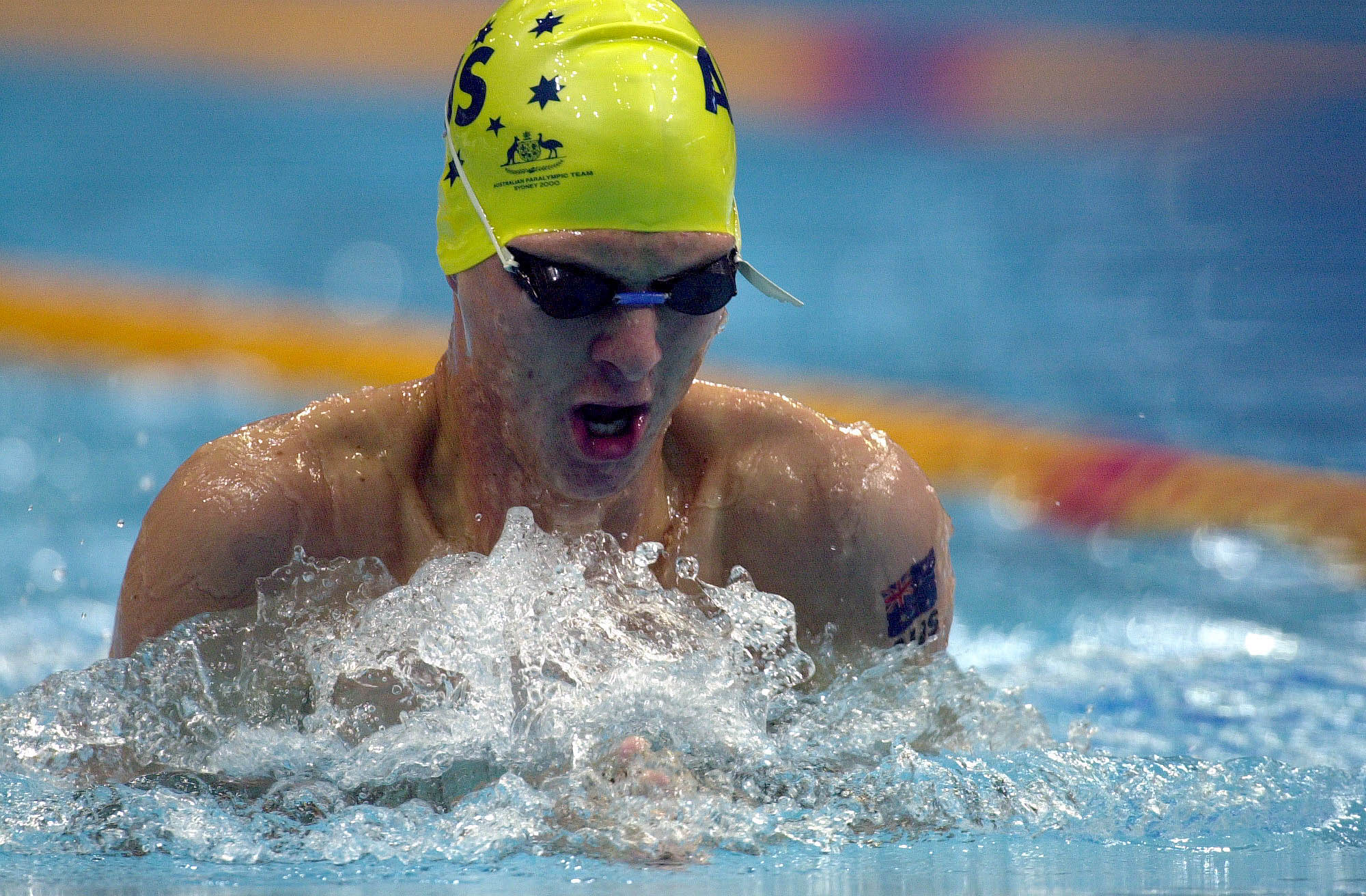 Action shot of Australian swimmer Stewart Pike during the 200m medley SM14 event, 2000 Sydney Paralympic Games, Day 02. Pike won silver in this event.